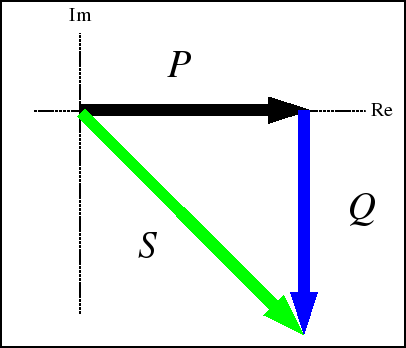 Apparent power S is the vector sum of real power P and reactive power Q